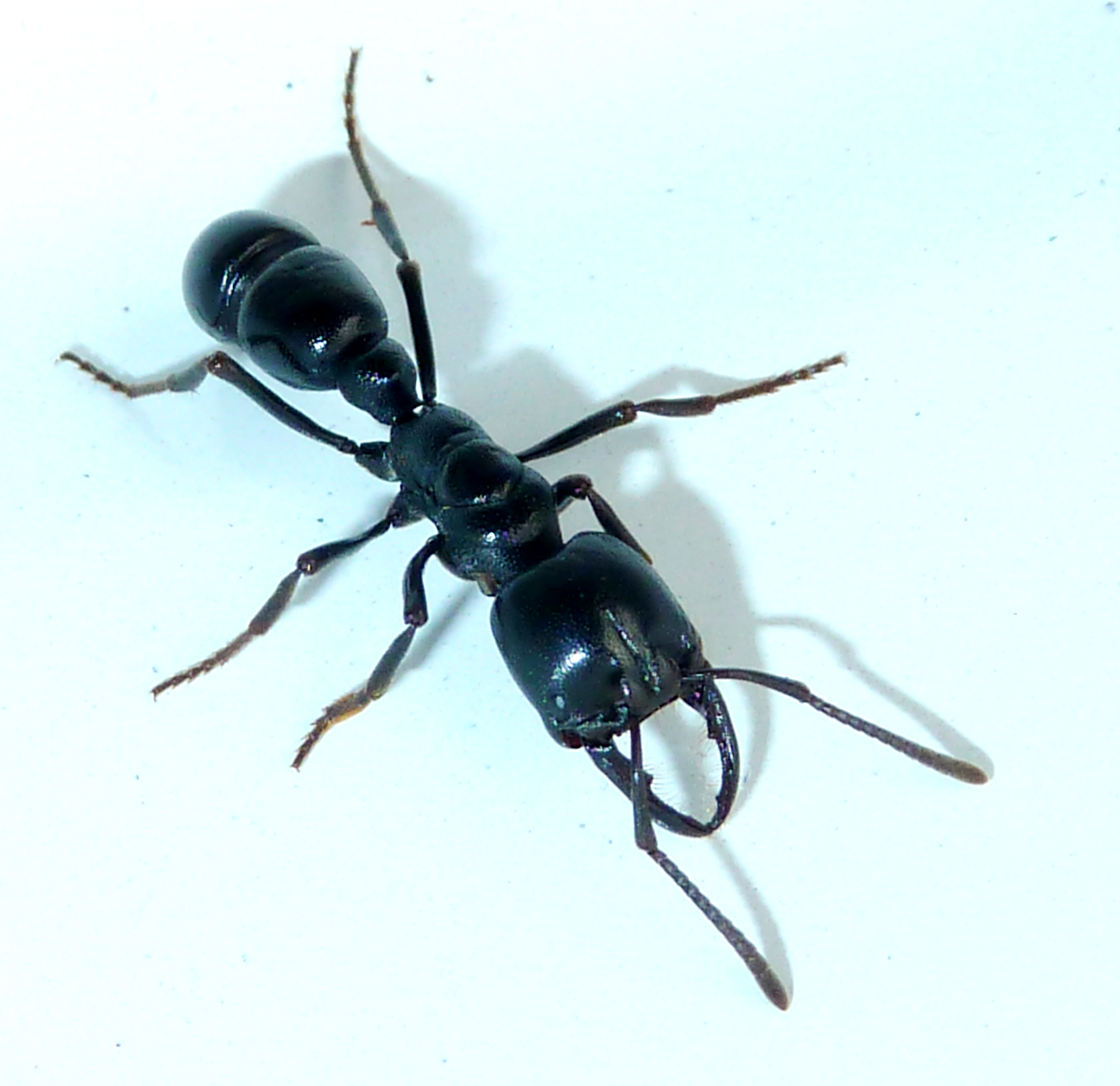 Plectroctena mandibularis worker ant found on the lawn of a farm homestead near Tweeling, Free State